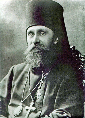 Bishop Platon (Kulbush), 1869-1919